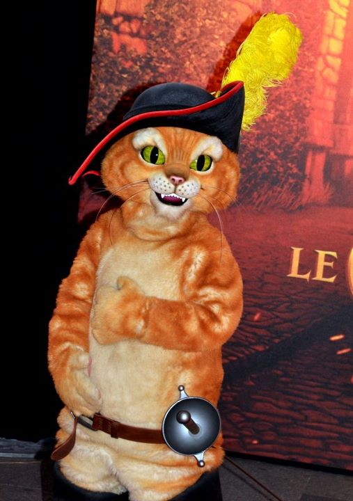 Premiere of the film Puss in Boots 3D in Paris